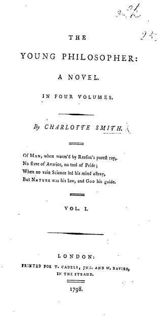 Smith, Charlotte Turner. The young philosopher. Vol. 1. London: Printed for T. Cadell, Jr. and W. Davies, 1798.